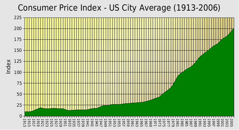 US consumer price index 1913-2006 (US city average). Created with Calc. Data obtained from: ftp://ftp.bls.gov/pub/special.requests/cpi/cpiai.txt This data was linked on